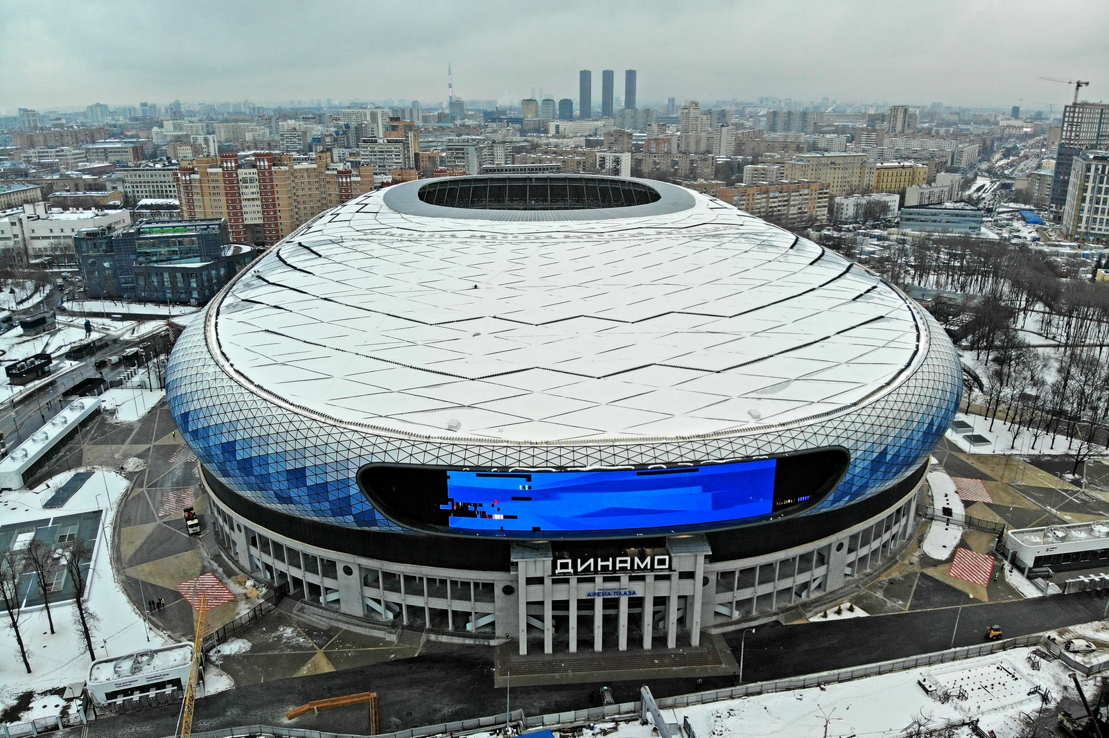 VTB Arena in Moscow